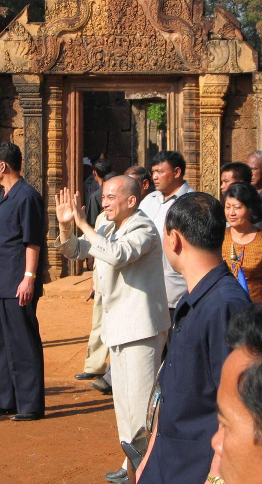 King Norodom Sihamoni of Cambodia outside Banteay Srei temple, Angkor